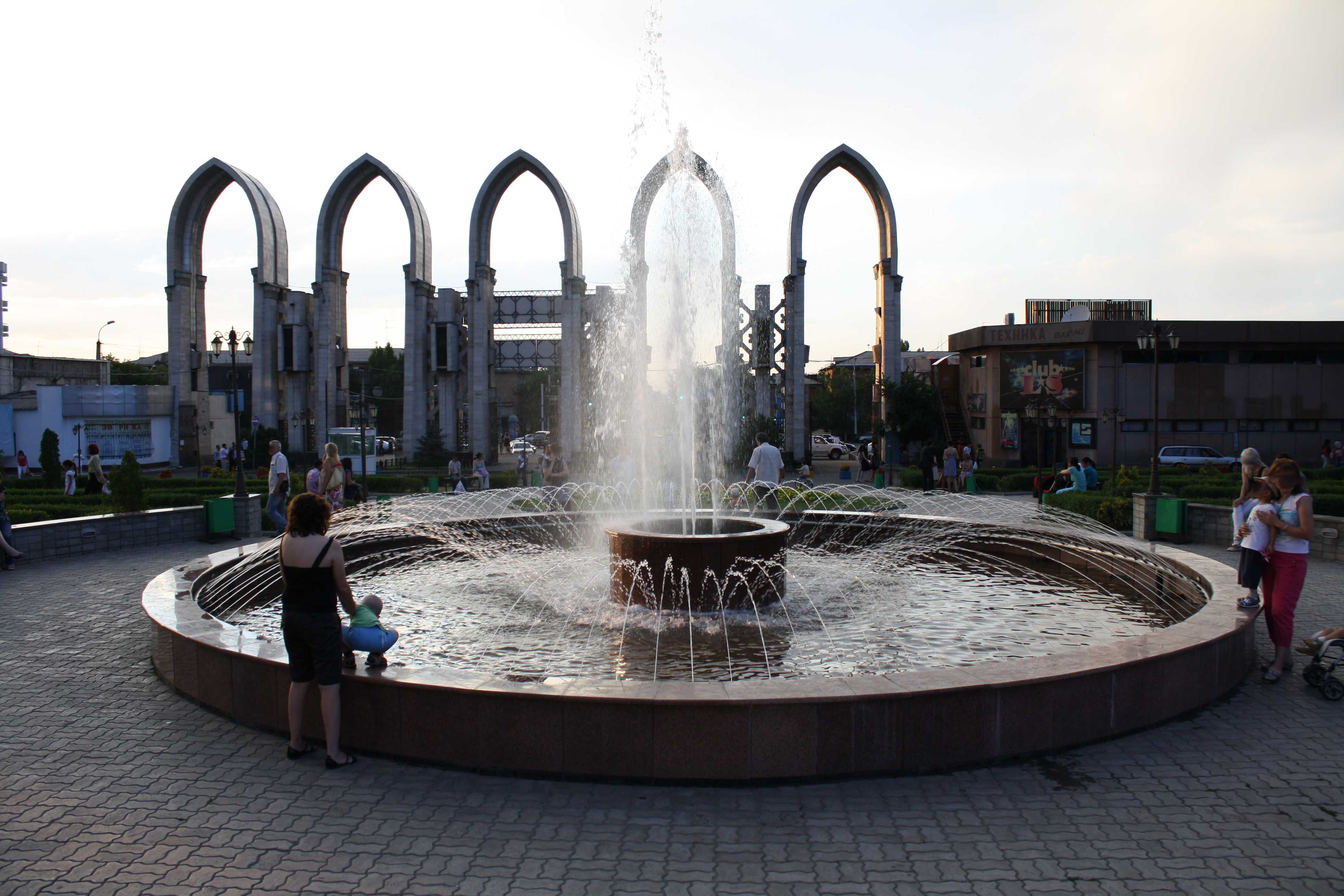 The main fountain of Atakent Business Center in Almaty, Kazakhstan